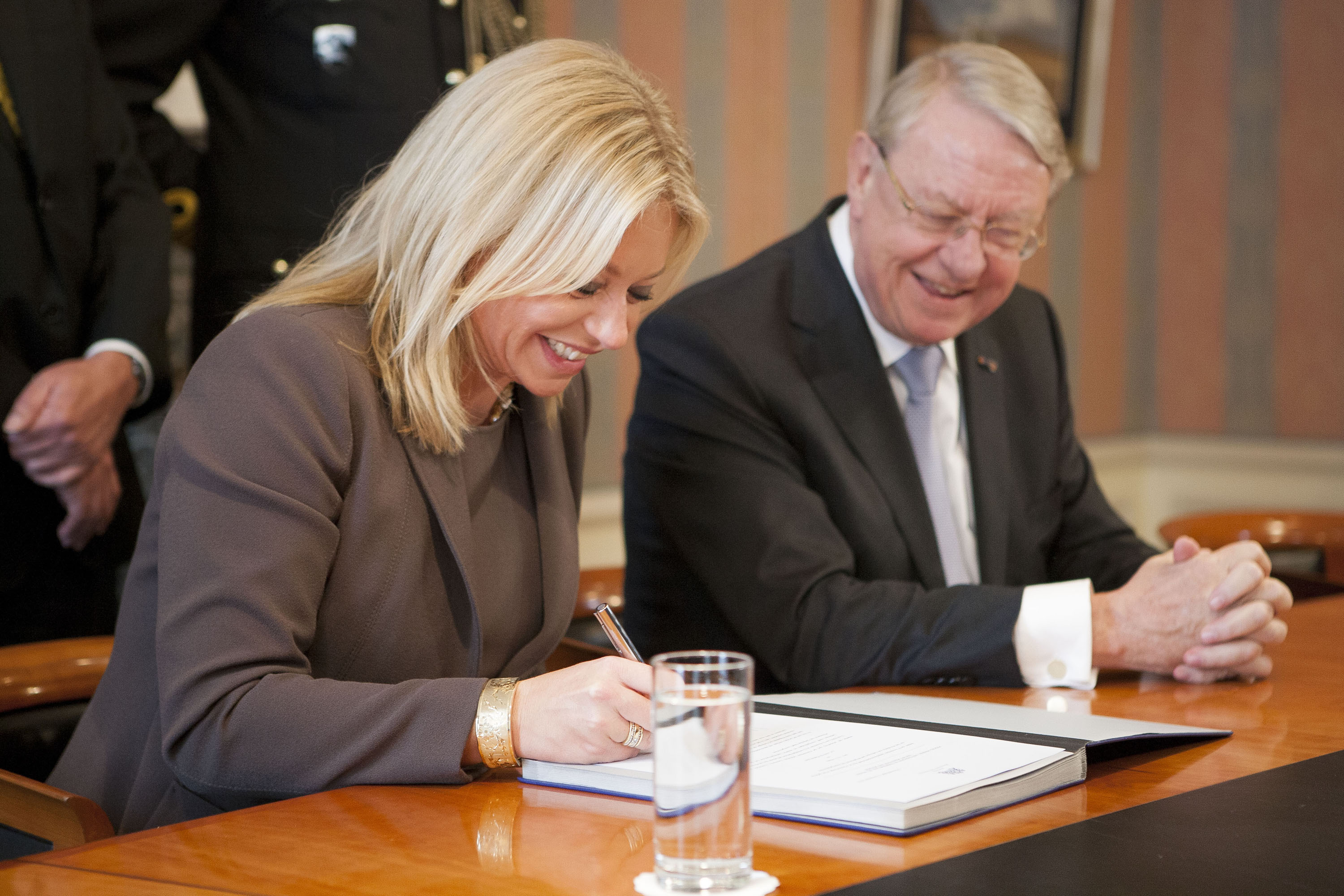 Jeanine Hennis-Plasschaert becomes minister of Defence, with right her predecessor Hans Hillen